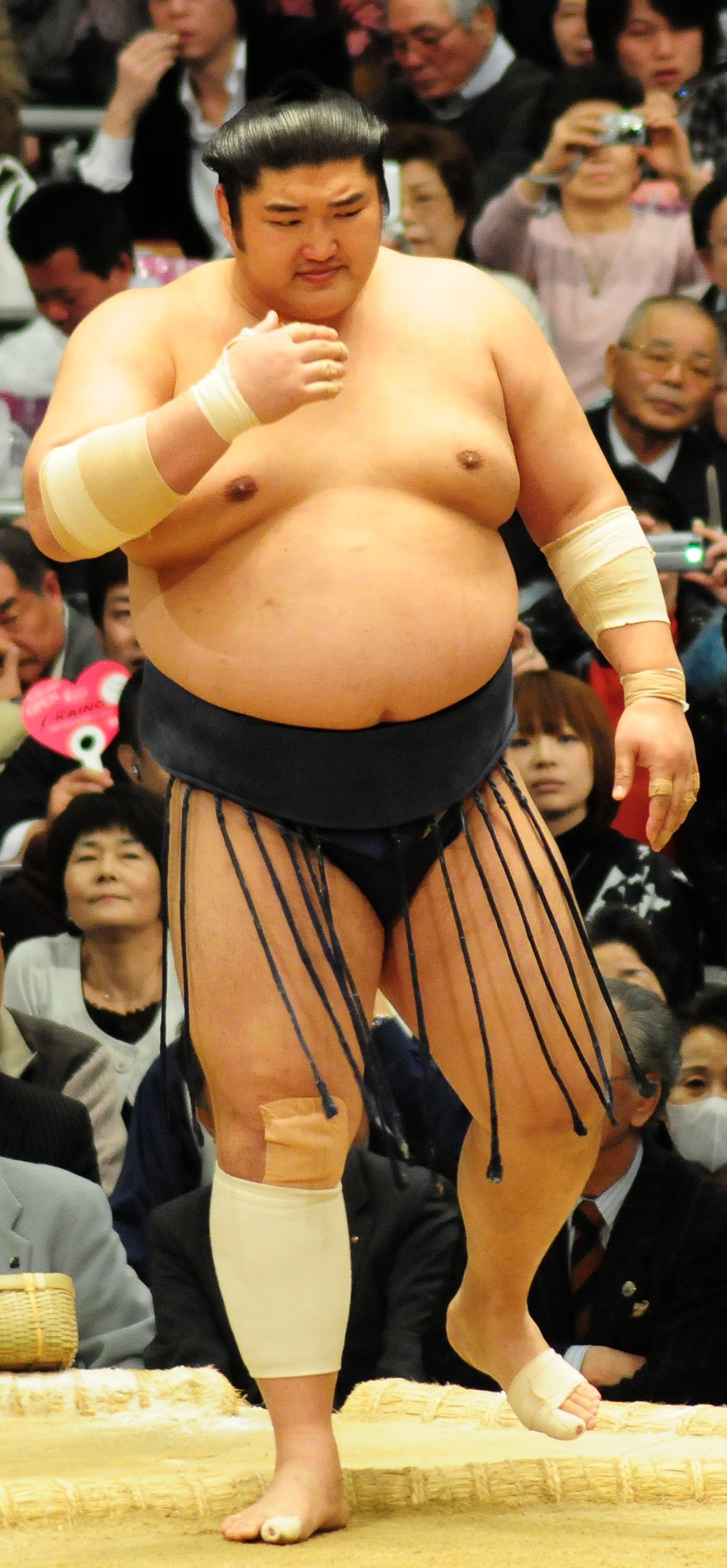 Ōzeki Kotomitsuki at the 2009 Osaka Grand Sumo Tournament.